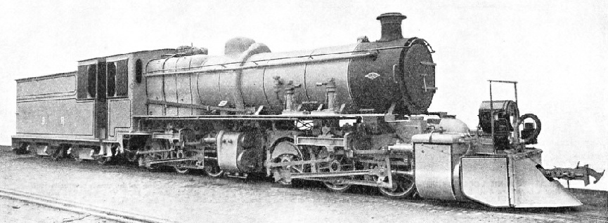 Burma Railway Company Mallet Class N